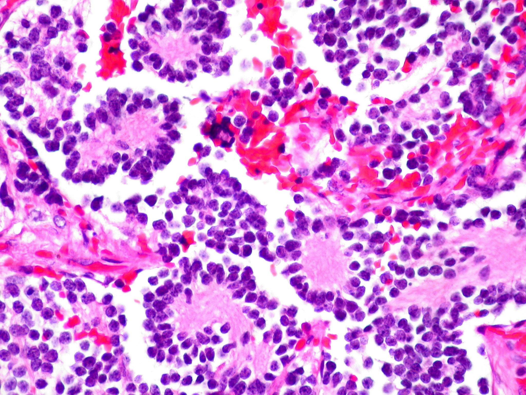 Showing Homer-Wright rosettes. Pathological and histological images courtesy of Ed Uthman at flickr.